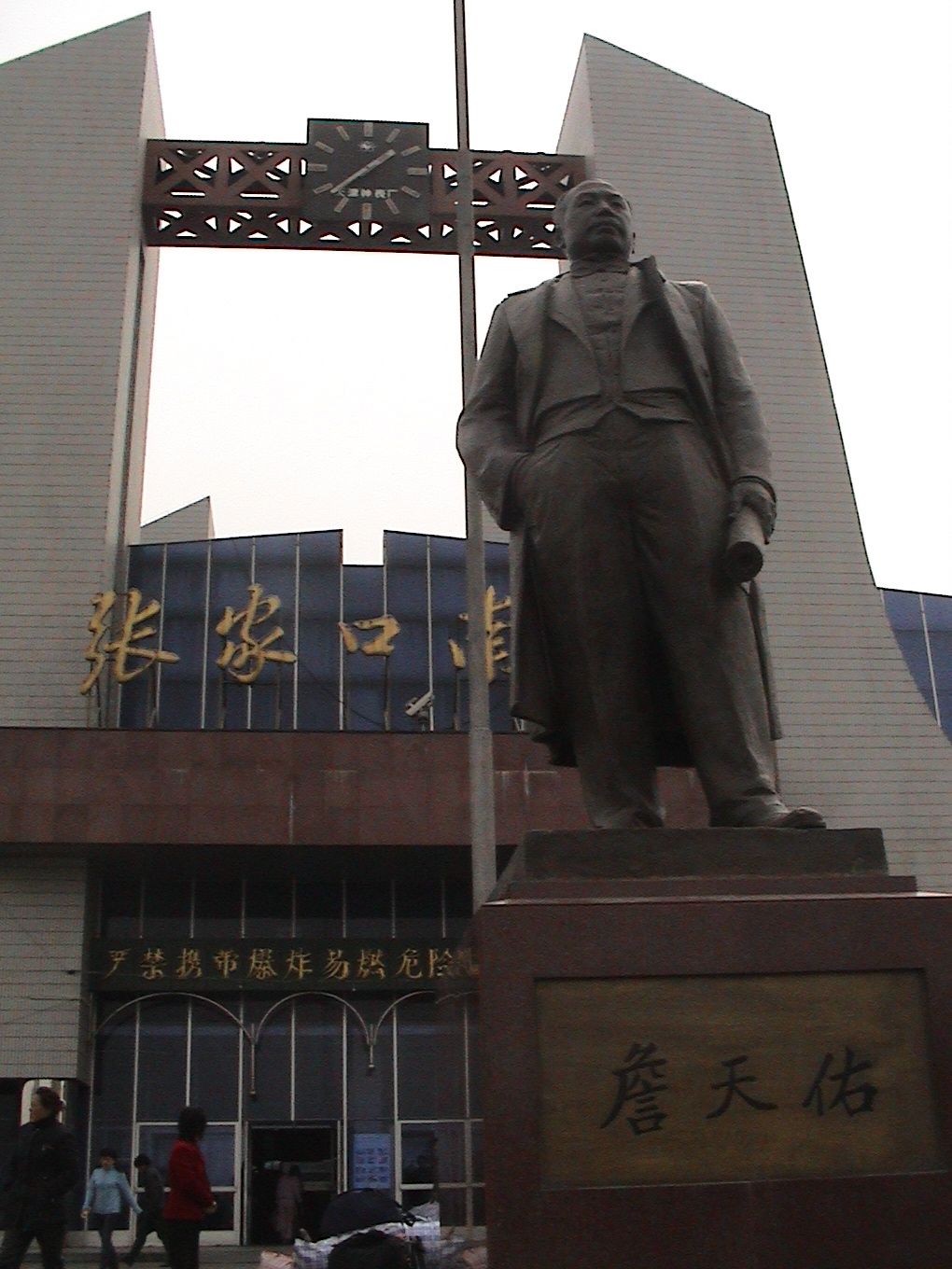 詹天佑(1861–1919)，中國近代科学技术界的先驱，杰出的铁路工程专家。12岁时被选为第一批留美幼童出国学习。1881年毕业于美国耶鲁大学土木工程系。历任晚清时期中国铁路公司工程师、京张铁路总办兼总工程师、民国时期交通部总长等职务。1905年主持修建中國历史上第一条干线铁路——京张铁路，开创了中国人民依靠自己的智慧和力量修建铁路的先河，被誉为“中国铁路之父”。周恩来总理曾高度评价他是“中国人的光荣”。值此京张铁路肇建百年之际，立此铜像，以为纪念。 中共张家口市委 张家口市人民政府 公元2005年9月 设计制作单位: 中央美院雕塑系 主创人: 隋建国 陈科 Zhan Tianyou, Zhangjiakou south railway station The photo was taken by User:Yaohua2000 at 2006-04-16 05:47:44 UTC. Do not trust the timestamp in JPEG metadata, the time was 174 seconds after the clock of the camera.